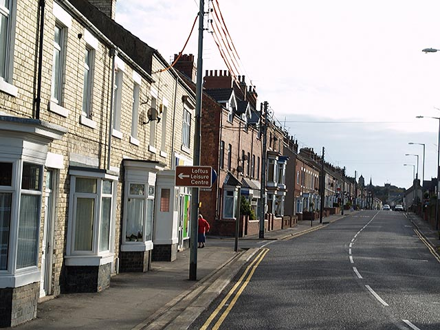 West Road, Loftus